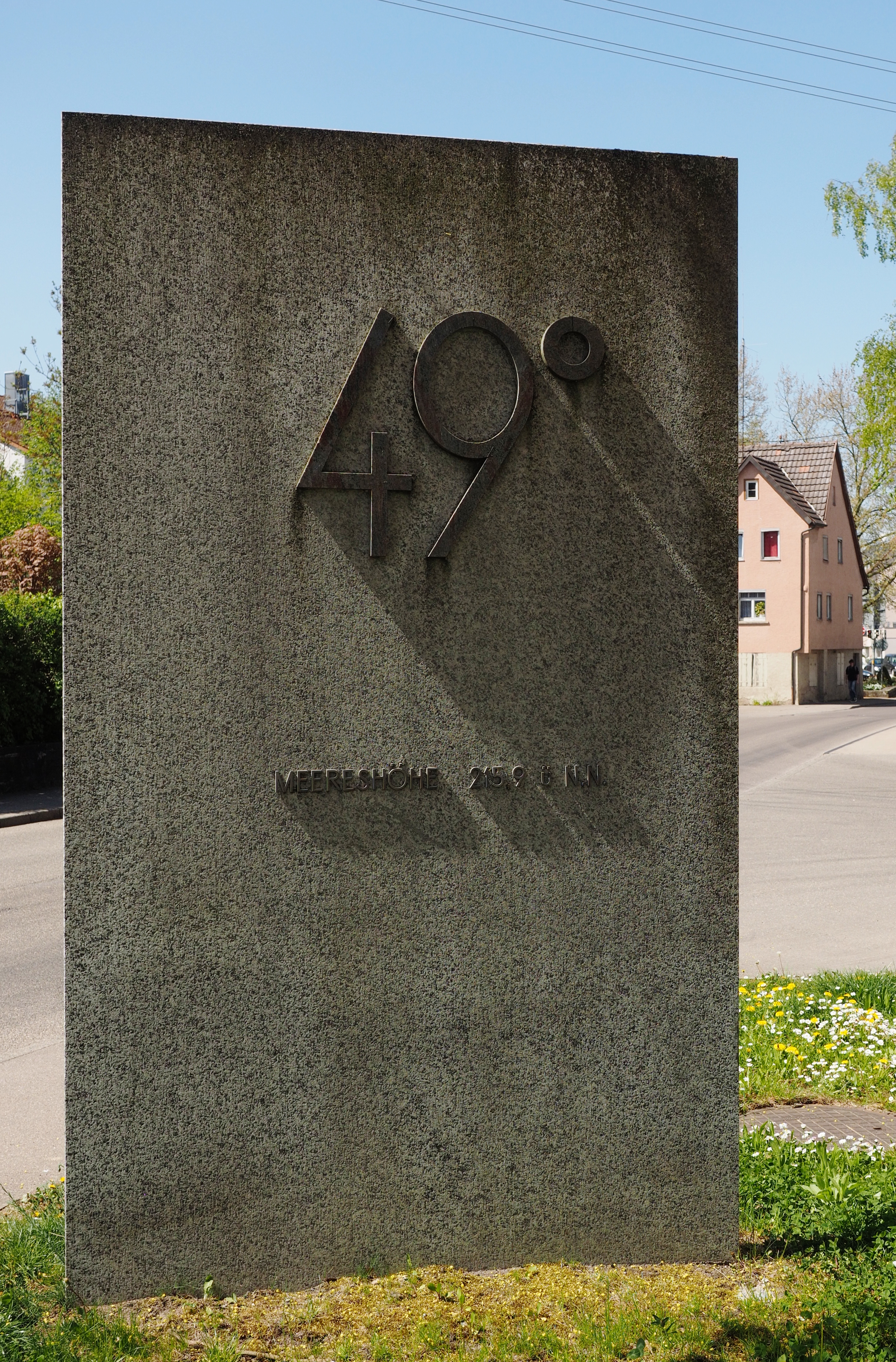 Marker of the 49th degree of northern latitude in Großbottwar, Germany. However, this item is sited about 120 metres south of the actual parallel. View from the north-east.